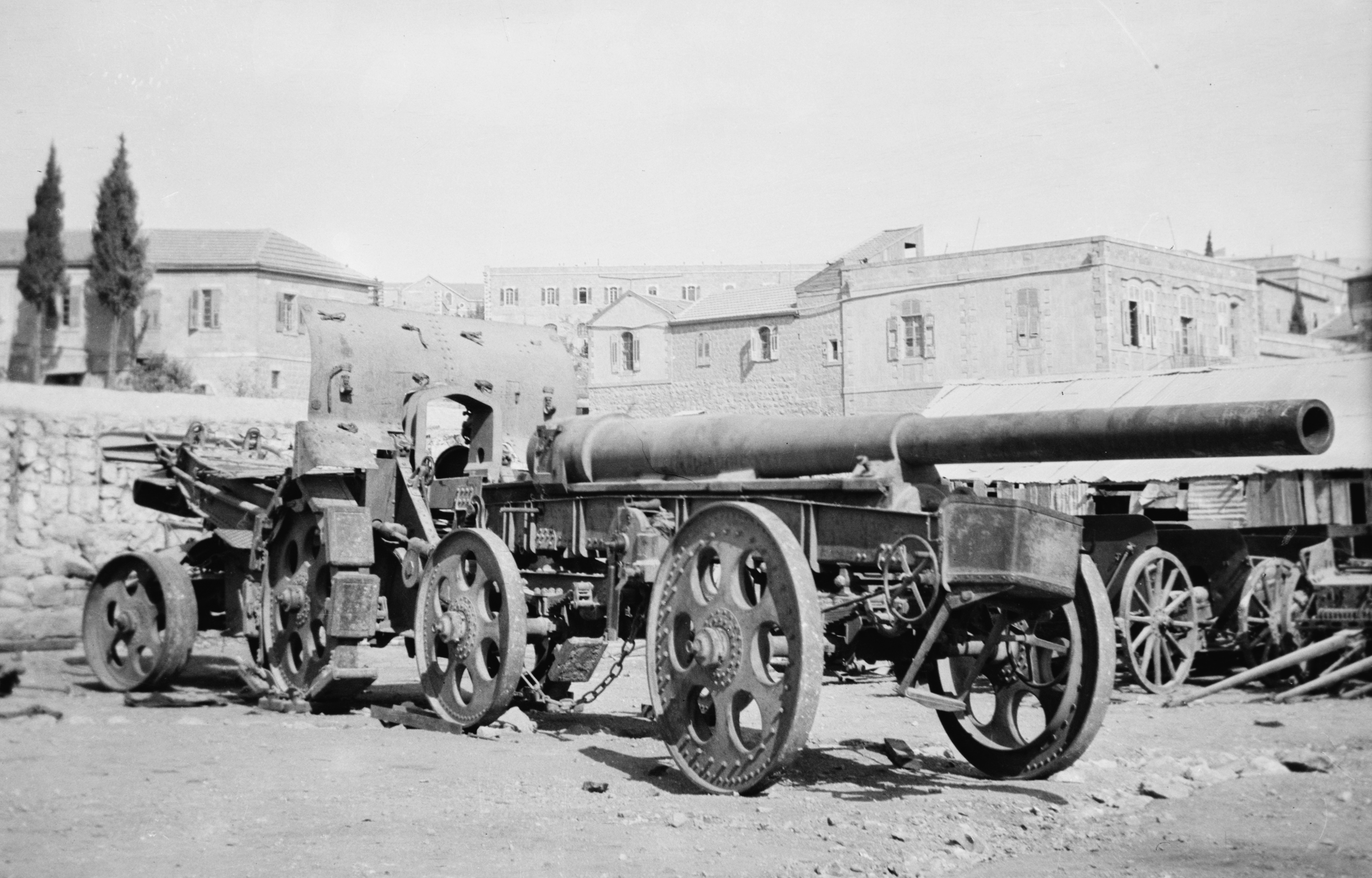 German 15 cm Kanone 16 . Original caption: Various results of the war. "Nablus Lizzy", large German gun